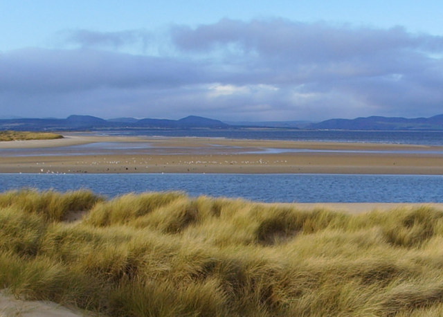 Looking West from the dunes near Wester Arboll, across the Dornoch Firth, to the mainland.